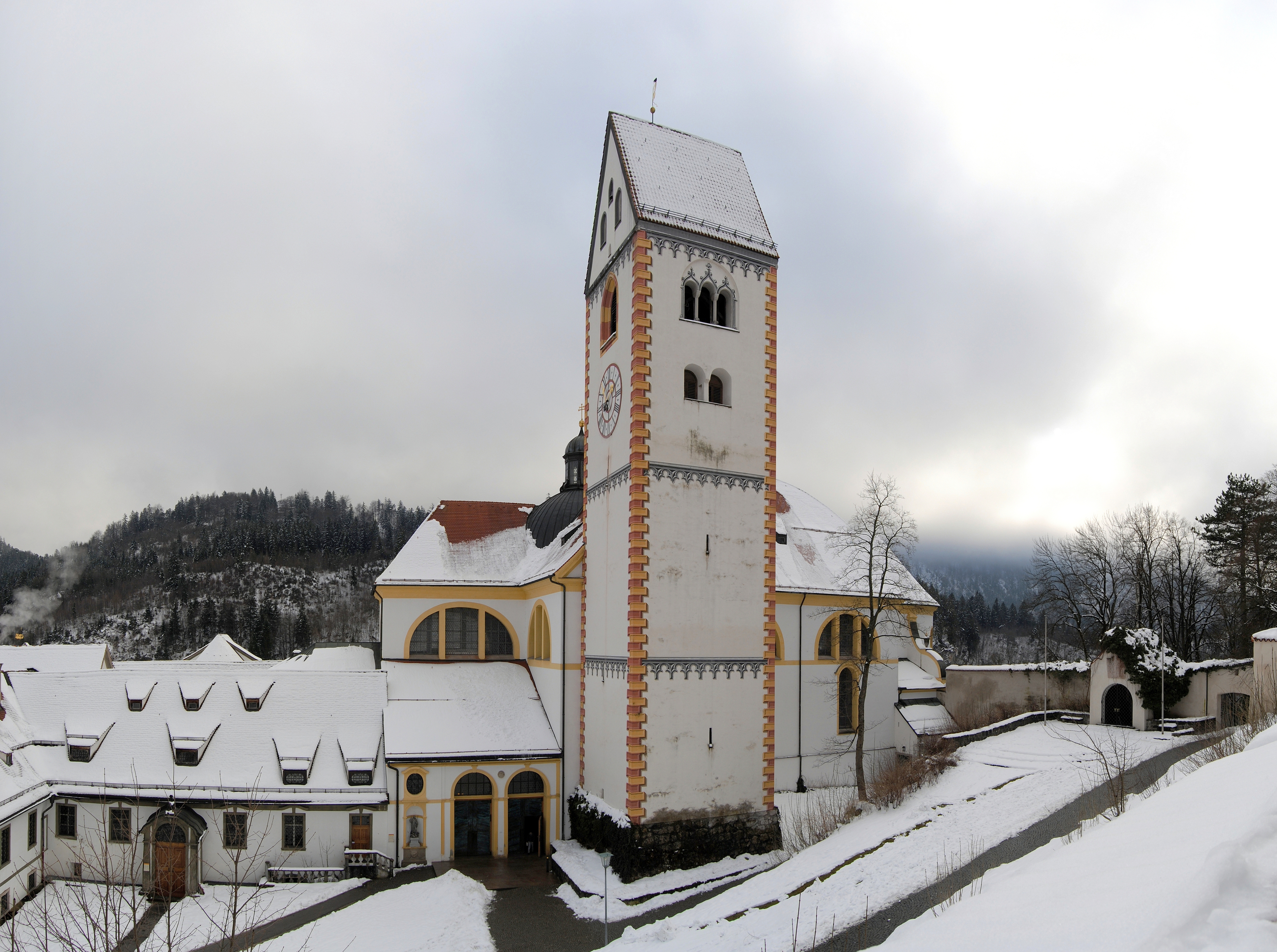 Comprehensive view from the north of the exterior of the St. Mang Basilica, the monastery church of the St. Mang's Abbey in Füssen, Bavaria (Germany).